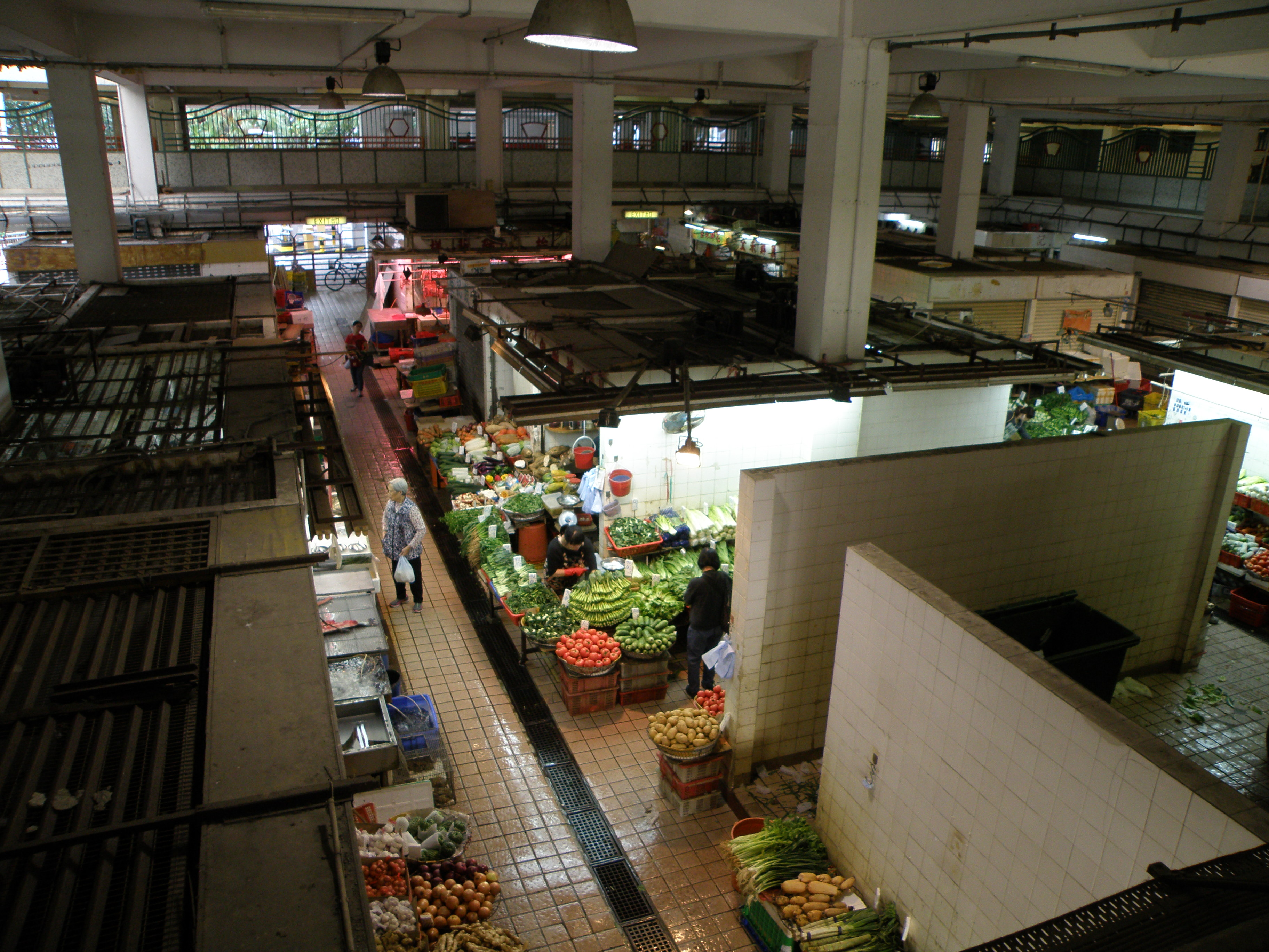 Cheung Wah Market in Fanling, Hong Kong.